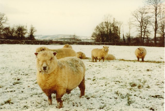 Ryeland sheep Benefitting from their deep fleeces on a midwinter day.